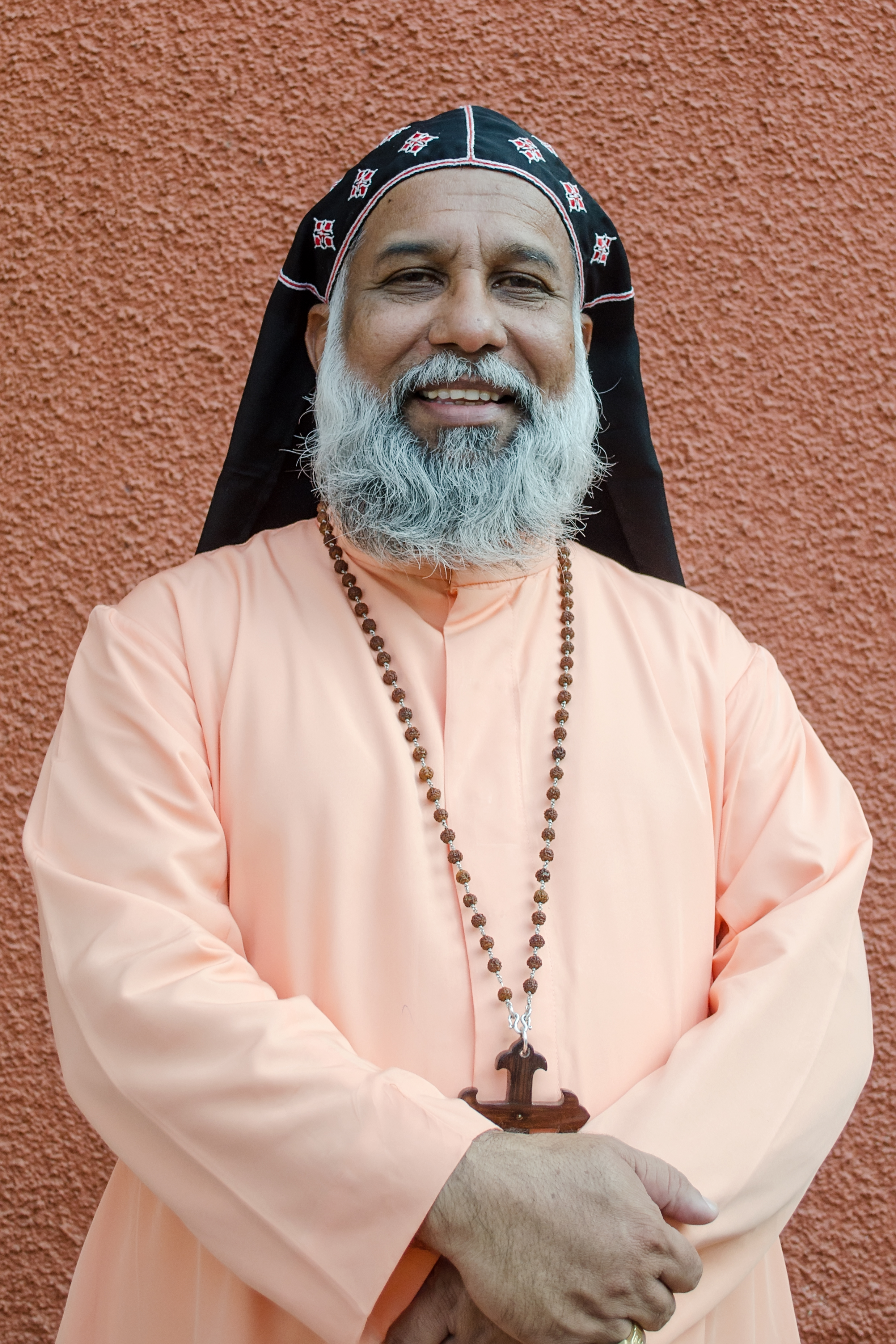 Cardinal Baselios Cleemis Cardinal Thottunkal